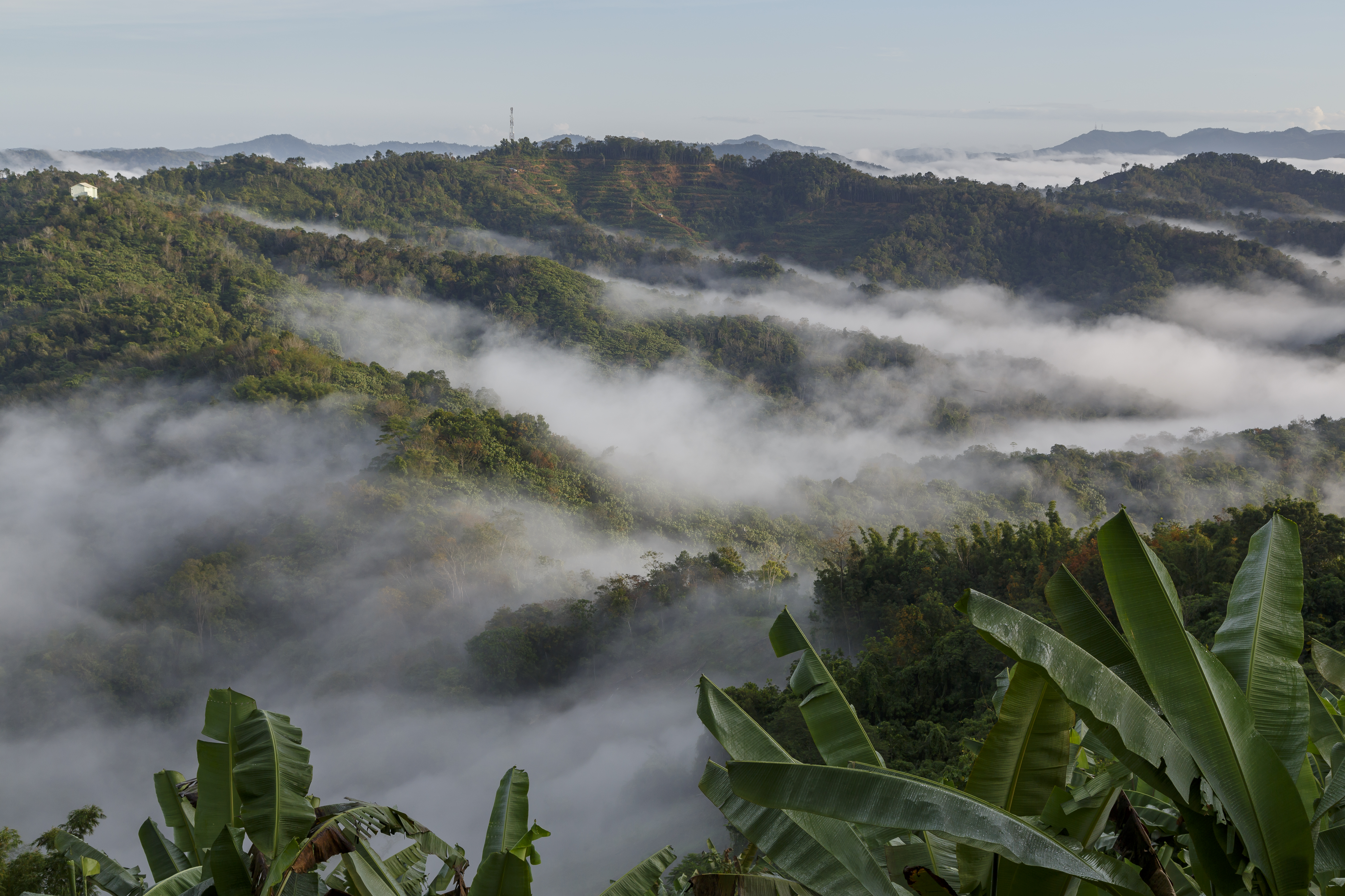 Tamparuli-Ranau-Road, Sabah: View of the crocker mountain ranges from a place in the west of Mount Kinabalu